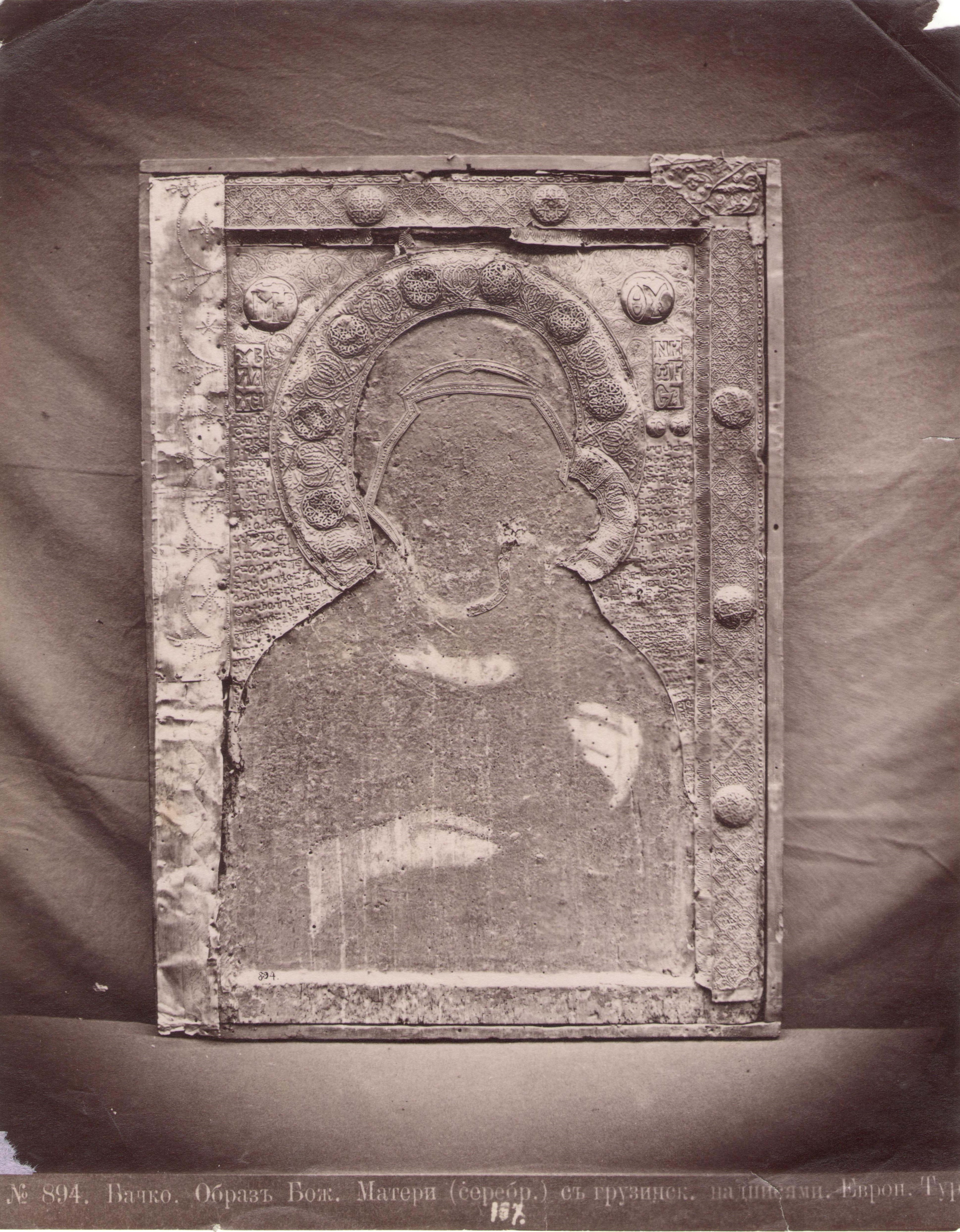 Bochkovo (petritsoni) monastery Virgin Mary Georgian Icon